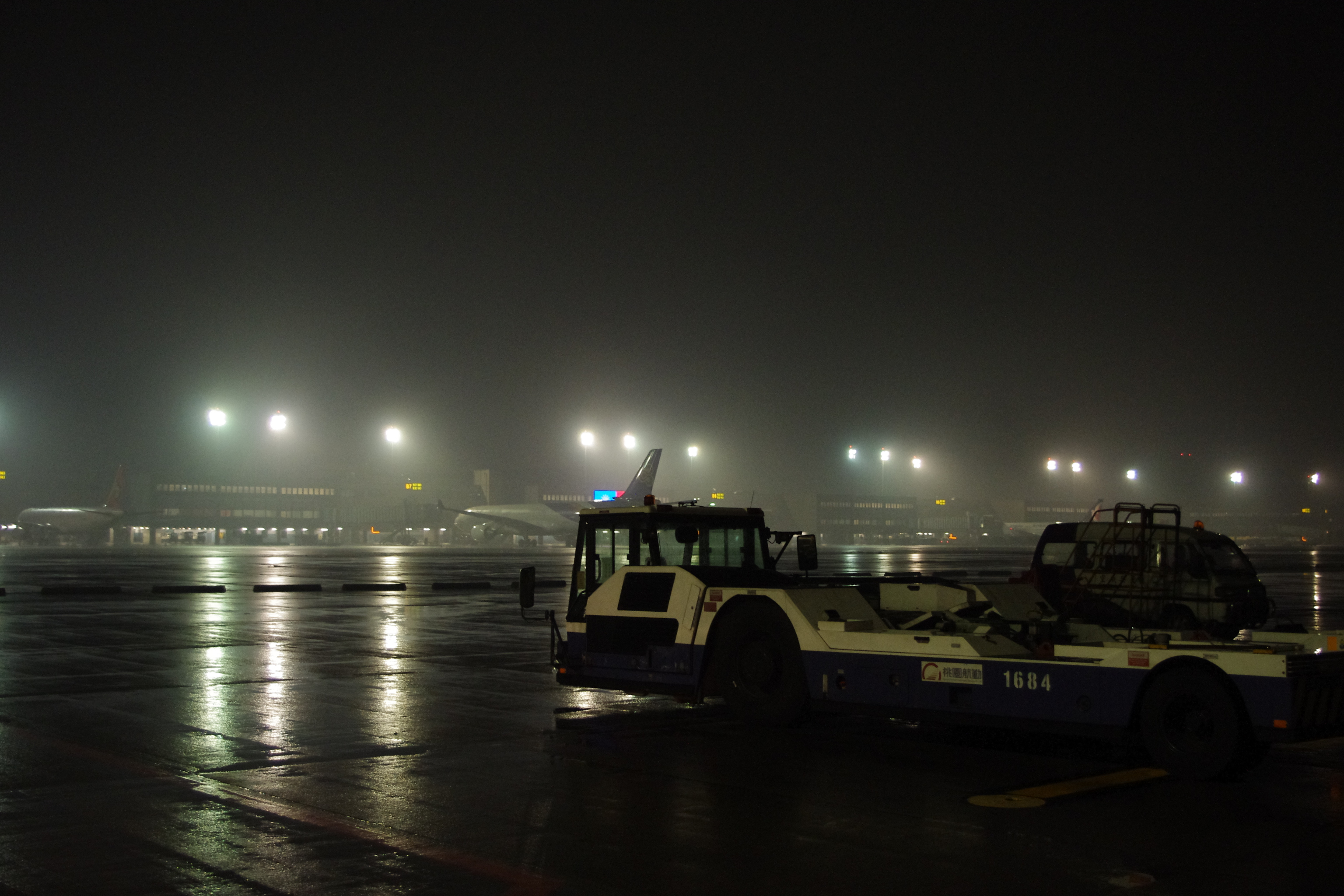 TPE Airport @ mid-night